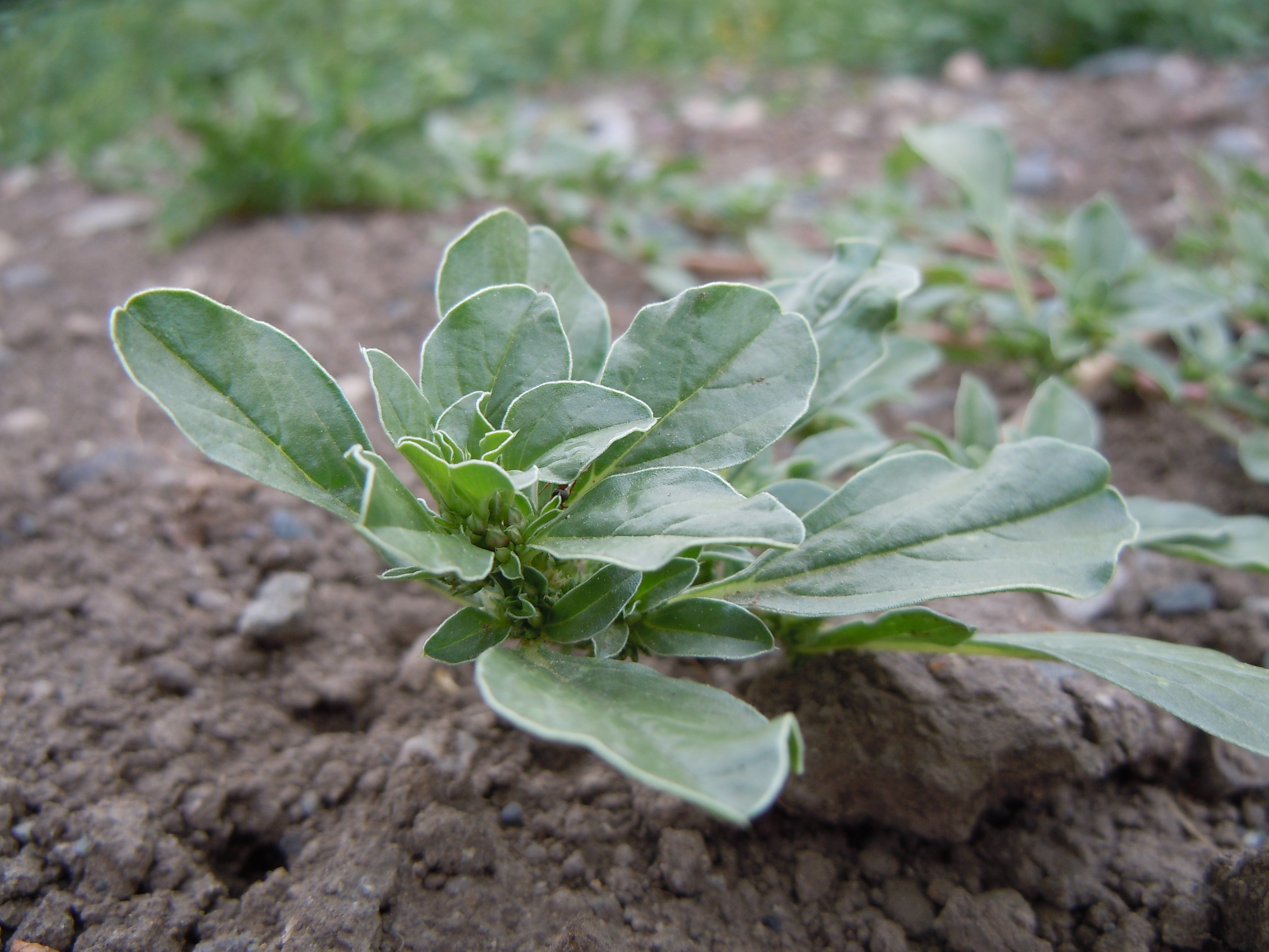 The prostrate habit and relative broad ovate leaves are distinctive of this species and distinguish it from Amaranthus blitoides, which is another often prostrate amaranth in this area.